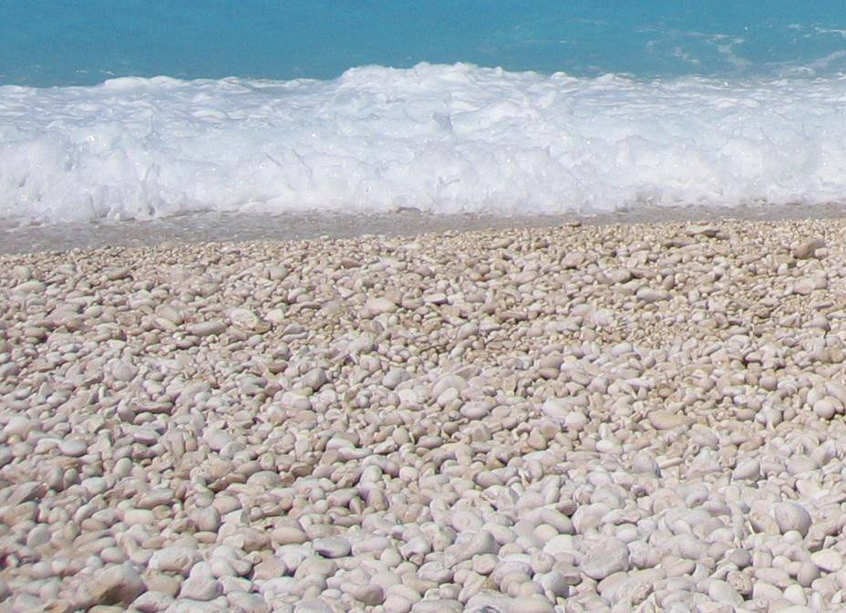 Myrtos beach, Kefalonia is composed of smooth white pebbles